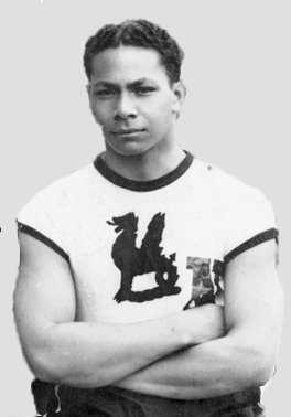 HRH Crown Prince Taufa’ahau in the 1936. Photo of the Newington College Senior Athletics Team.